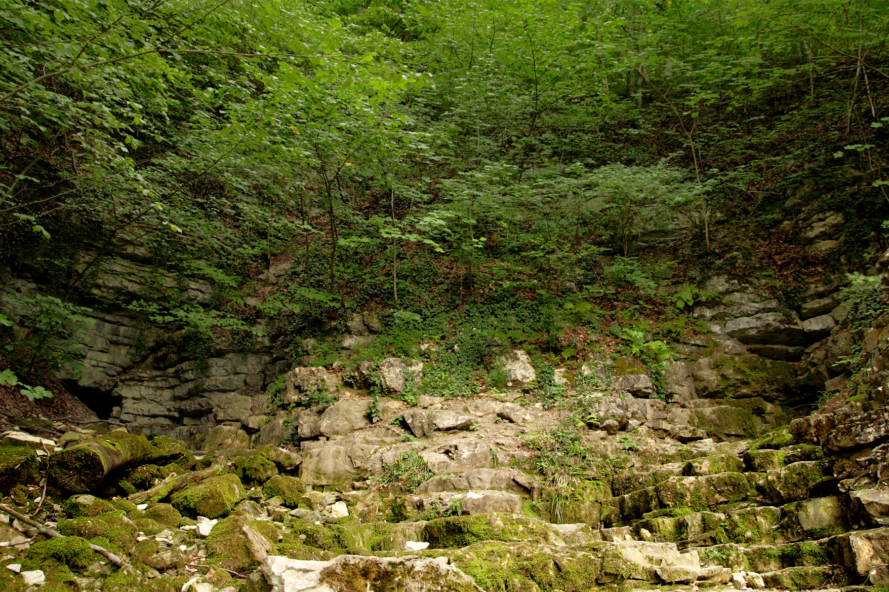 Two outflow caves. The water of the stream Lindach exsurges mainly from the one to the right. The karst outflows are in a high limestone layer, close to the upper ridge of the Albtrauf, near Neidlingen. After running over the steps calcium carbonate precipitates in moss cushions which form to growing overhangs. When grown to an impressively large „nose of Calcareous Tuff", this collapsed some fifty years ago.